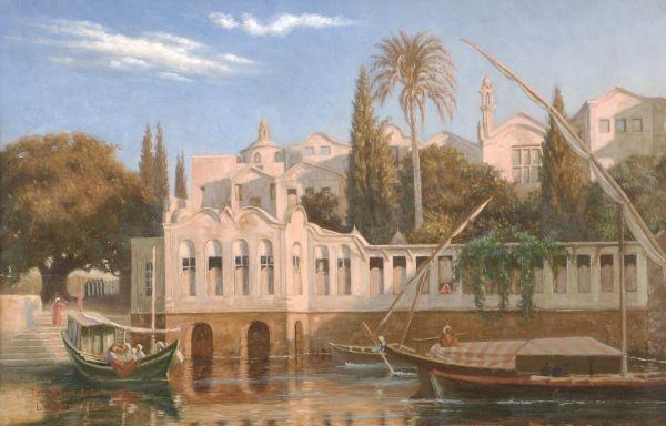 A palace on the Nile at Cairo